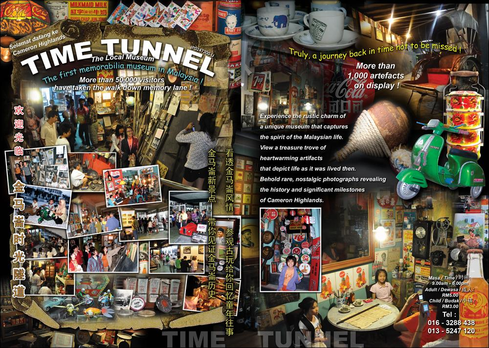 The TIME TUNNEL museum is located within the Kok Lim Strawberry Farm, UT/MR/F-255, Jalan Sungei Burung, 39100, Brinchang, the Cameron Highlands, Pahang, West Malaysia.